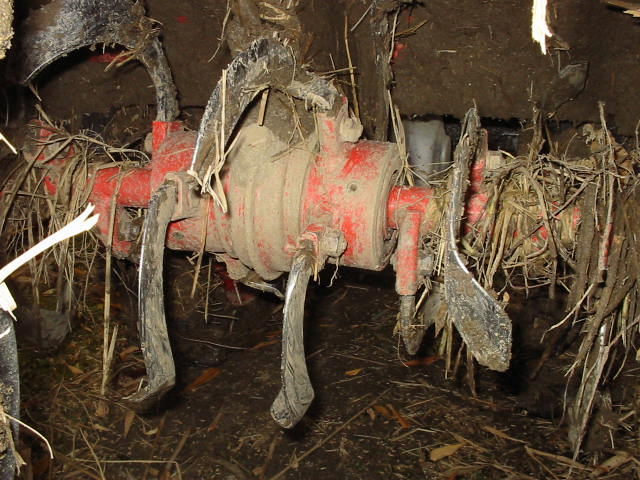 This photo shows a part of a rotary of a Yanmar Rotary tiller.